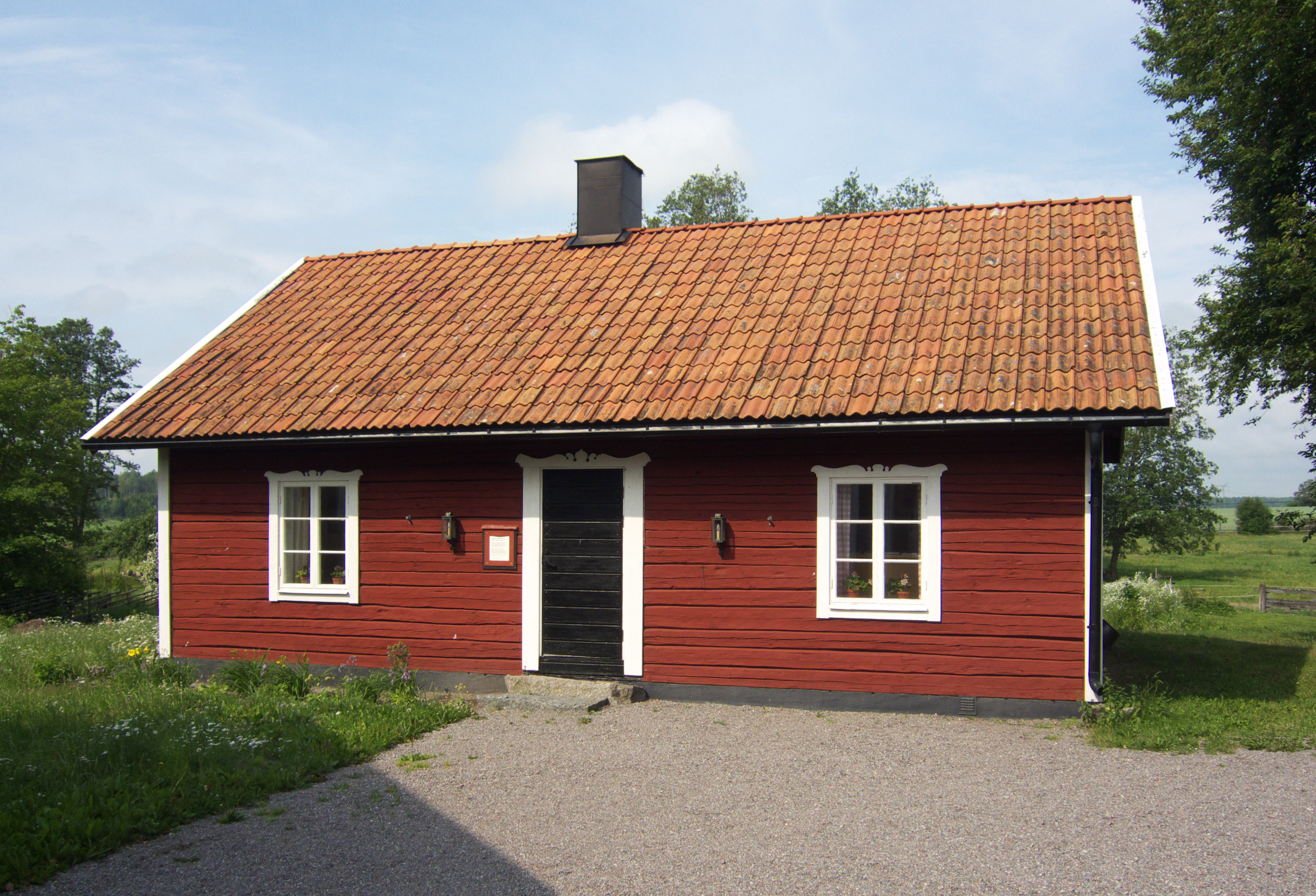 Museum of author Jan Fridegård in Övergran, Håbo municipality